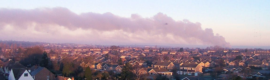 The aftermath of the Yarl's Wood fire, taken on the morning of 15th February 2002 from a distance of 3.5 miles.